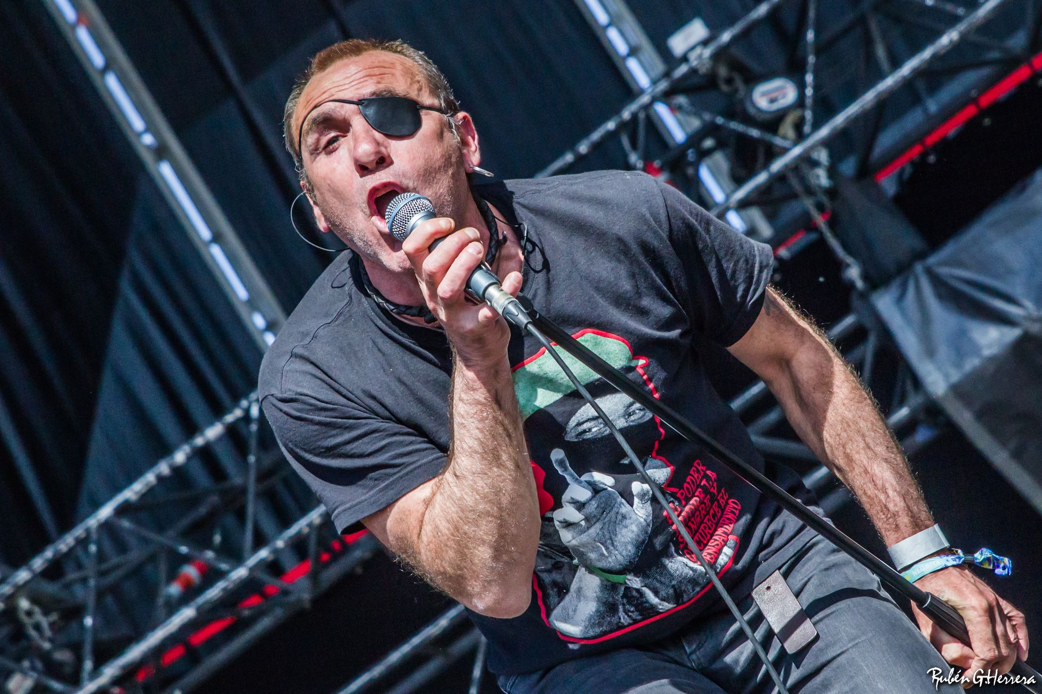 Vito, from Sinkope